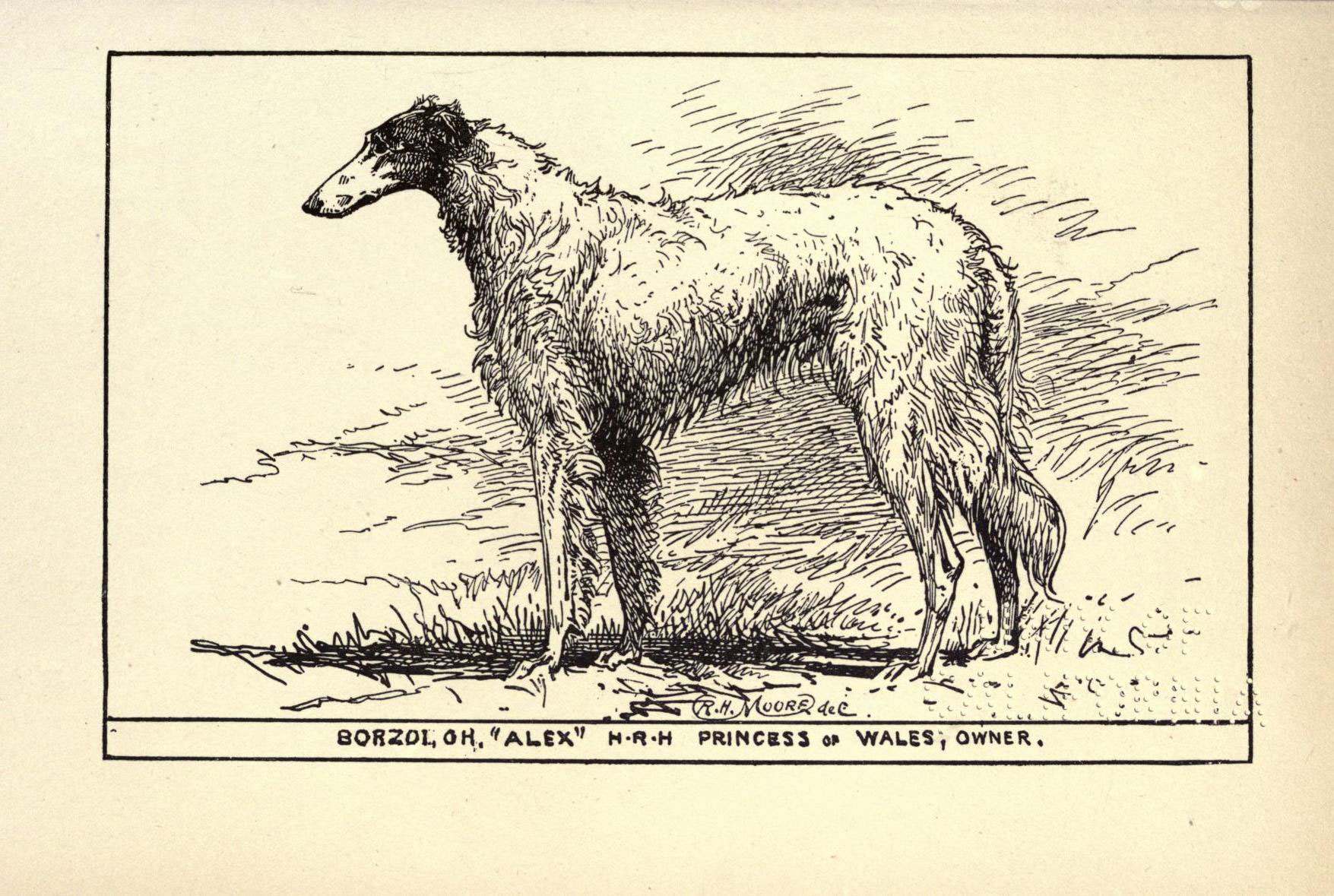 All about dogs; a book for doggy people New York,J. Lane,1900.